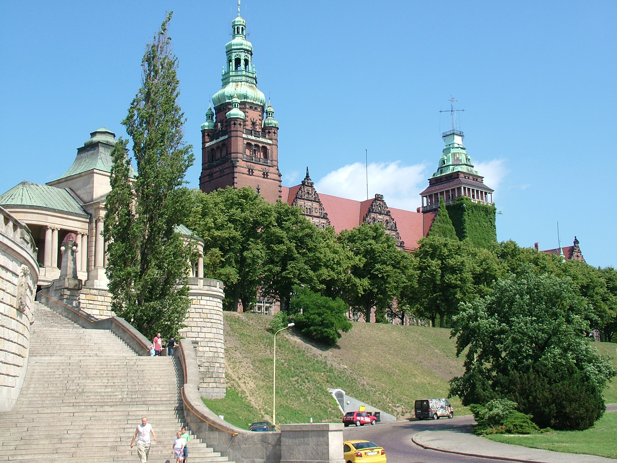 Provincial office in Szczecin